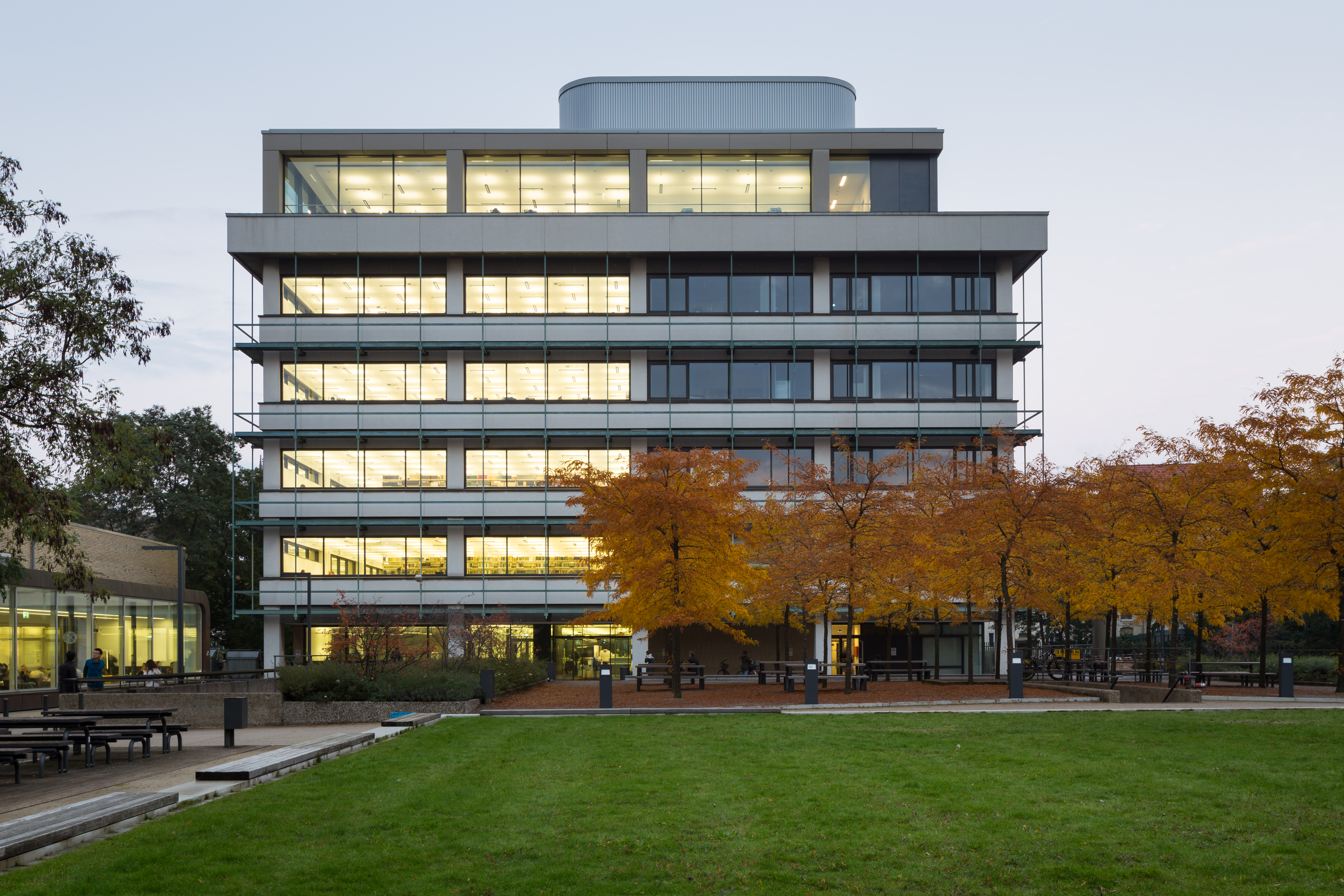 Specialized libraries at Koenigsworther Platz square, belonging to Conti Campus of Leibniz Universitaet Hannover located in Mitte quarter of Hannover, Germany.